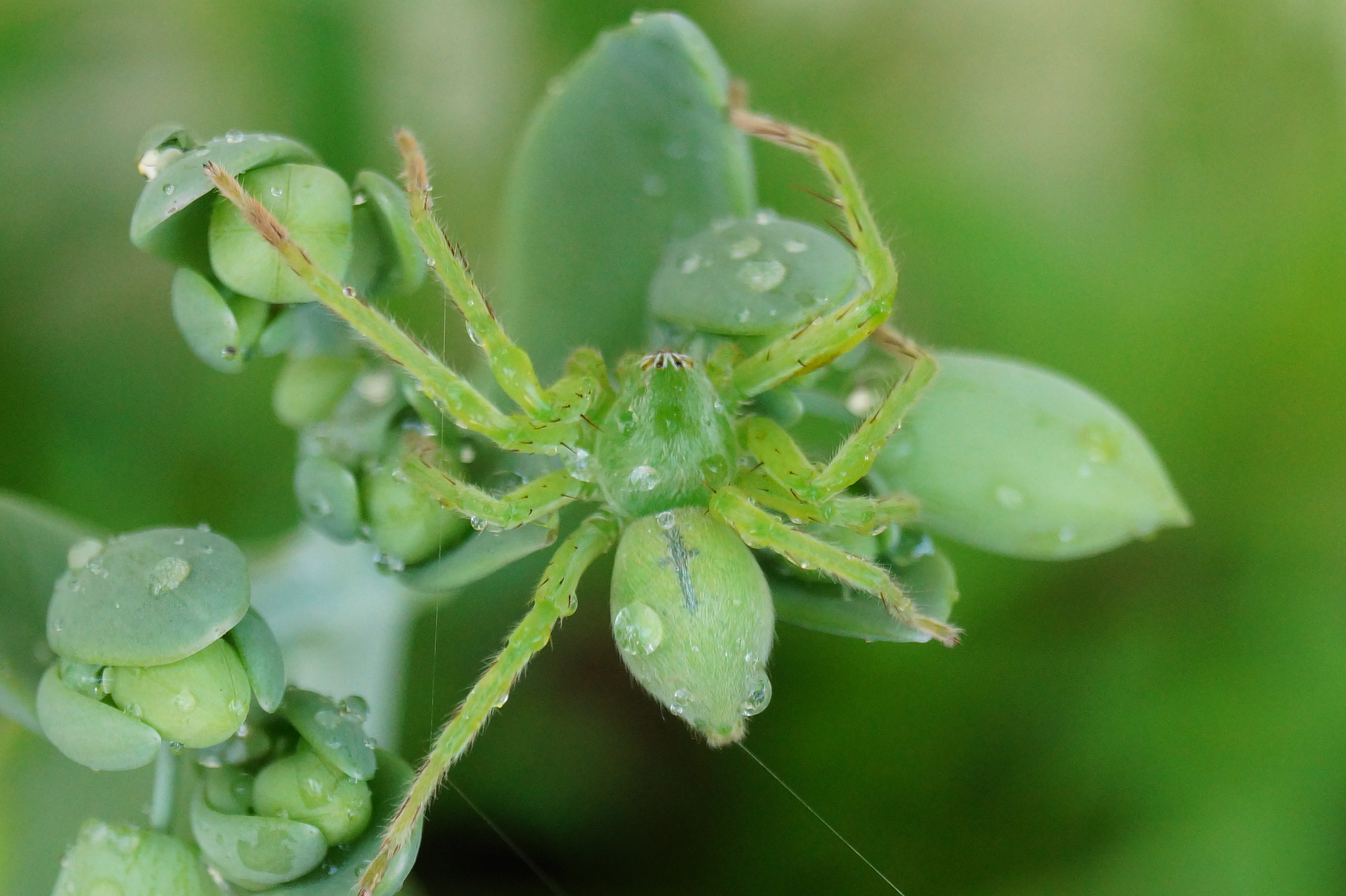 Green huntsman spider on an air plant during a rainy day